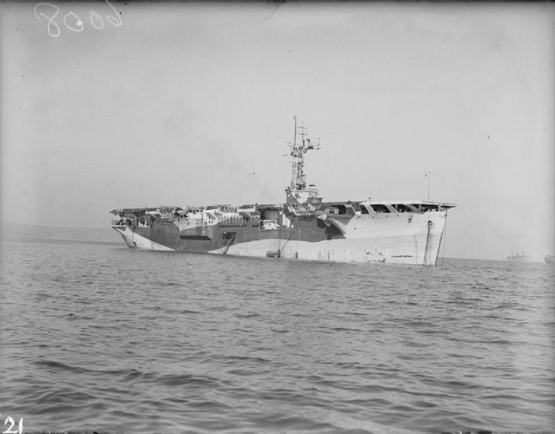 British escort aircraft carrier HMS CAMPANIA at anchor.